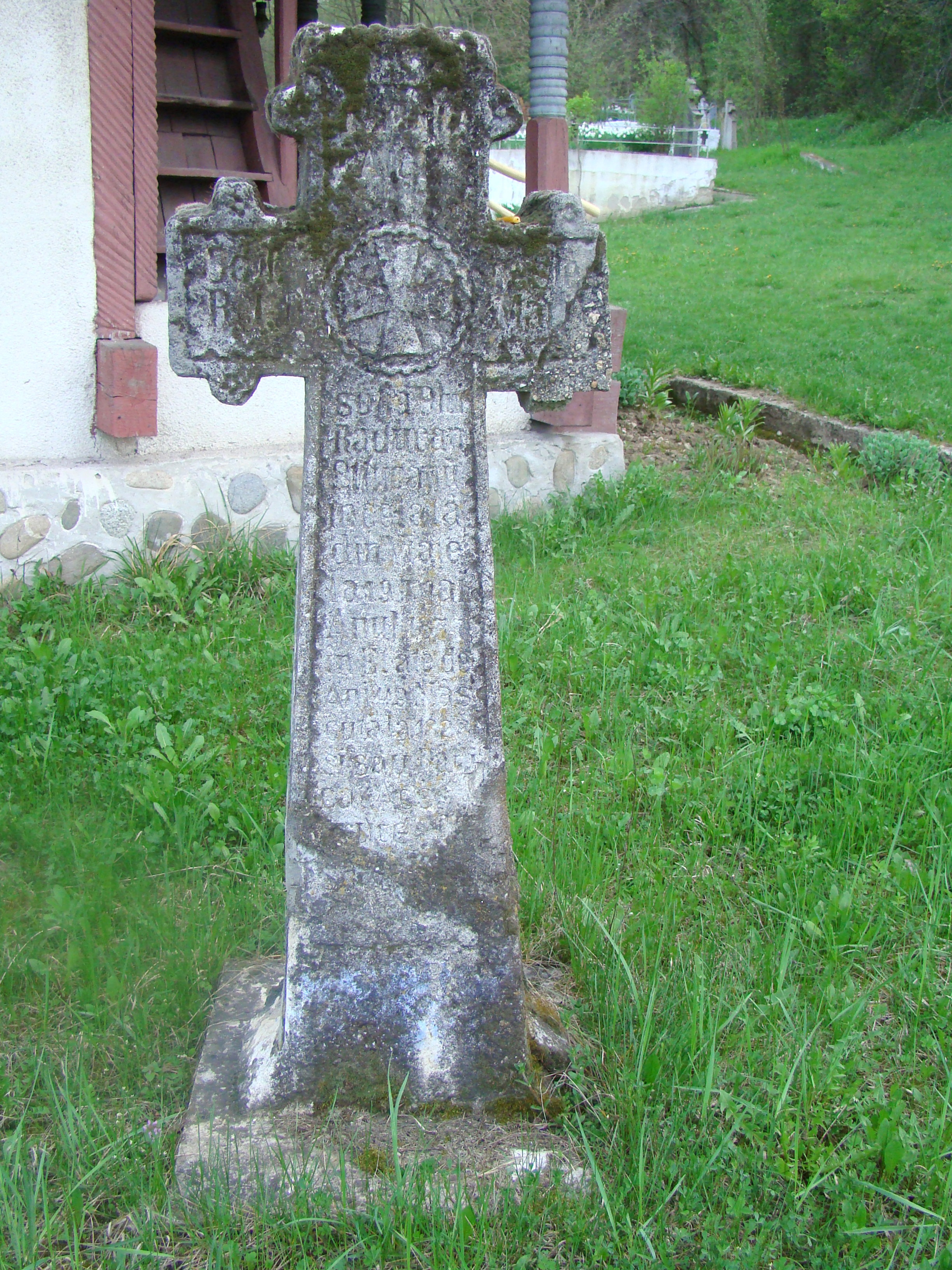 Saint Nicholas wooden church in Știucani, Gorj county, Romania